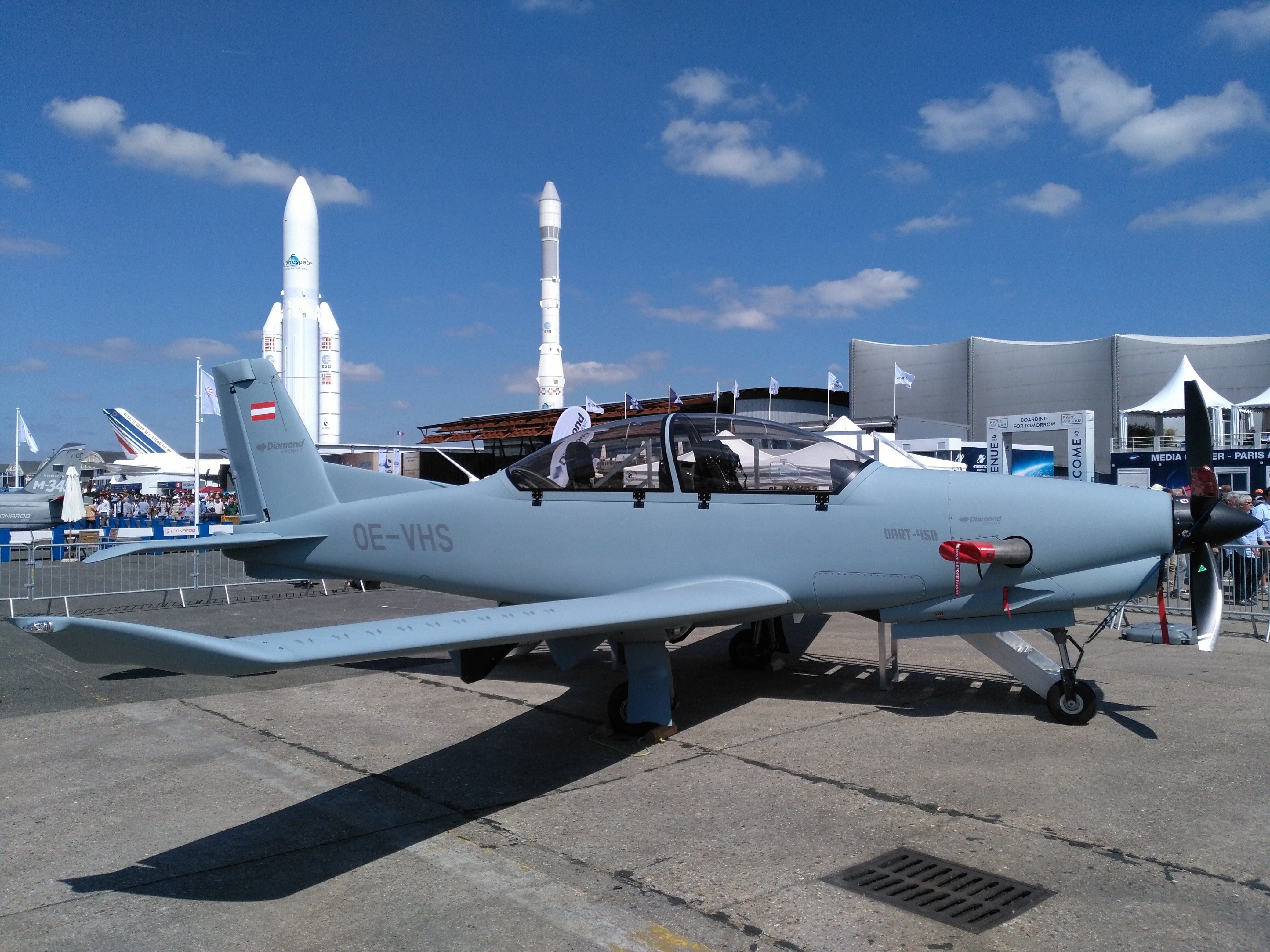 Diamond DART-450 on static display at Paris Air Show 2017